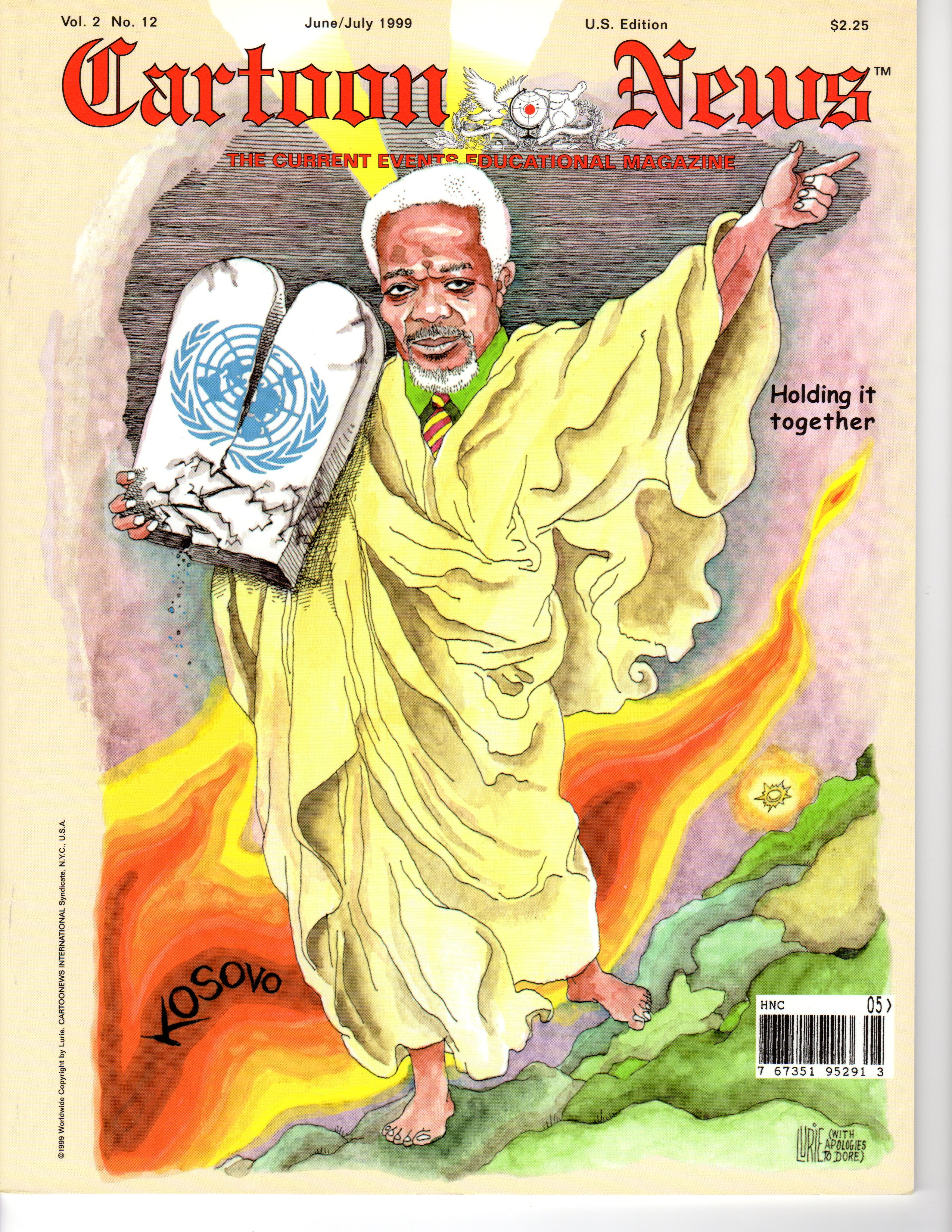 Kofi Annan by Ranan Lurie, on the front page of "Cartoon News" קריקטורה של קופי אנאן, מעשה ידי רענן לוריא, בשער כתב העת "Cartoon News"